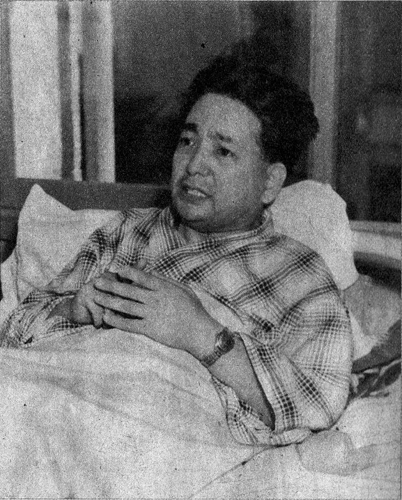 Photograph of person described in Hiroshima